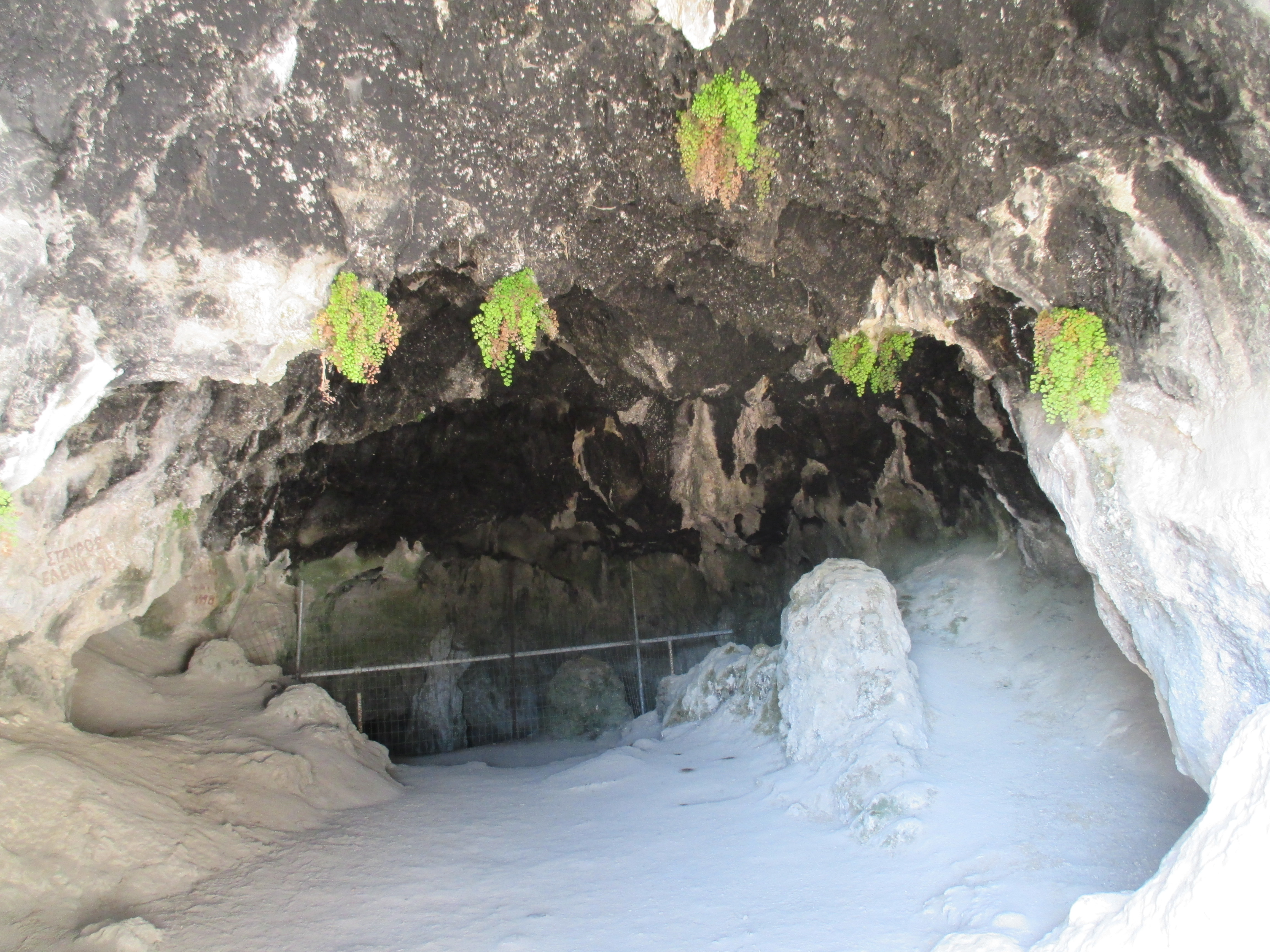 Smaller cave behind the Panagia Sarantaskaliotissa church near Pythagoras Cave, Mount Kerkis, Samos, Greece. Note: This cave is not the "real" Pythagoras Cave, which is located a bit lower.